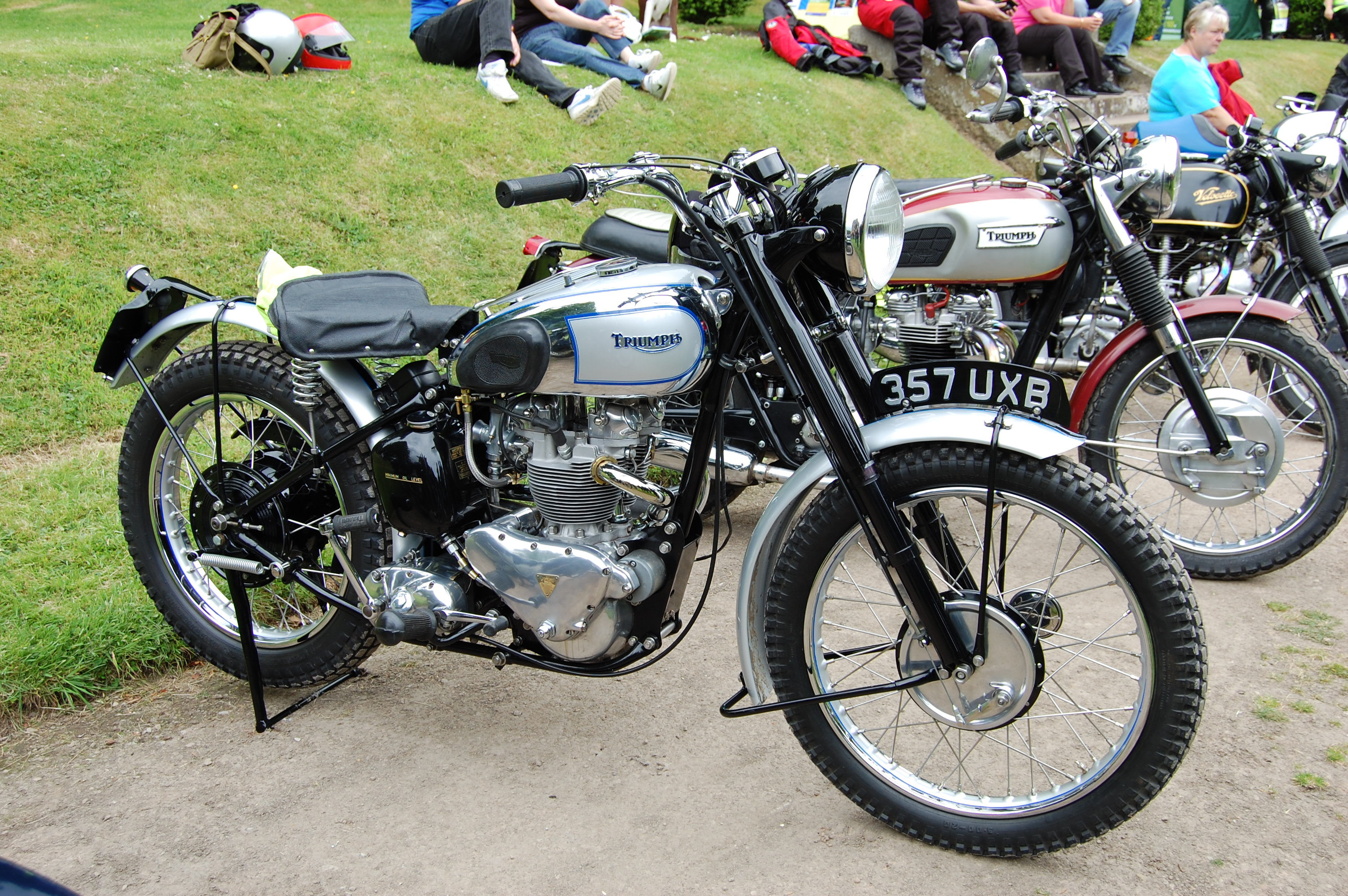 The Triumph TR5 Trophy was a British motorcycle made by Triumph Motorcycles at their Meriden factory. Based on the Triumph Speed Twin, the TR5 was a trials machine designed for off road use with a high level two into one exhaust and good handling on public roads. [1] The name 'Trophy' came from the three 'specials' that Triumph built for the Italian International Six Day Trials in 1948, which went on to win three gold medals and the manufacturers team trophy.[2] Featuring prominently in the AMC "Class C" racing until 1969, the American export models included components from rhe Triumph Tiger 100 to create a motorcycle for desert competition.[3] From 1951 the 498cc engine (used as aircraft generators during World War II was updated with a new alloy barrels and heads. The TR5 was replaced with a new range of unit construction twins in 1959.[2] The Trophy name was resurrected for the Triumph TR6 Trophy in 1970 and the Trophy 500 (T100C) in 1971, which in turn was replaced by the Triumph Trophy Trail (TR5T) in 1973. The Hinckley Triumph company used the Trophy name for the Triumph Trophy 900 and Triumph Trophy 1200 models. Famous Riders The Fonz , a character played by Henry Winkler in the popular and long running American sit-com Happy Days rode a Triumph TR5 Trophy. Both the character and bike were available as an MPC model kit in the 1970s. In an attempt to ape Marlon Brando and his 6T Triumph Thunderbird, James Dean bought a Triumph TR5 Trophy. Phil Stern's famous series of photographs of Dean show him upon this bike which although sold after the actor's untimely death, was recovered and restored before being displayed at the James Dean Museum in Fairmount, Indiana.